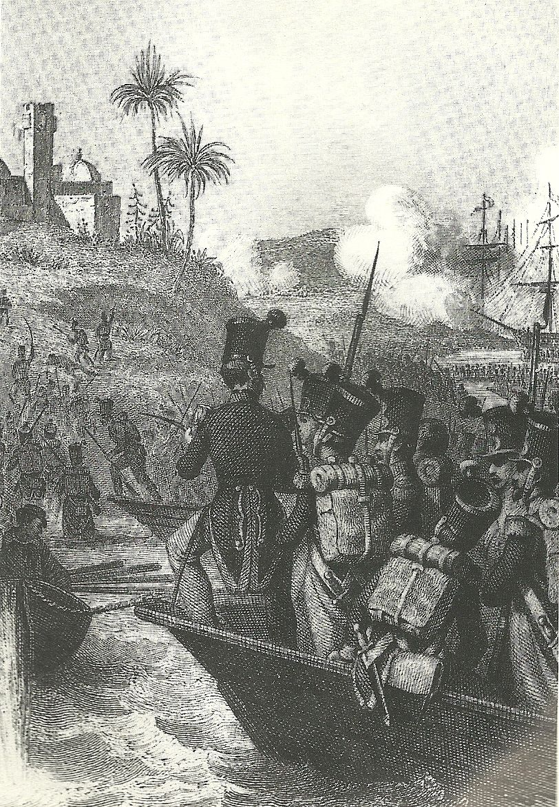 Sidiferuch_landing_1830